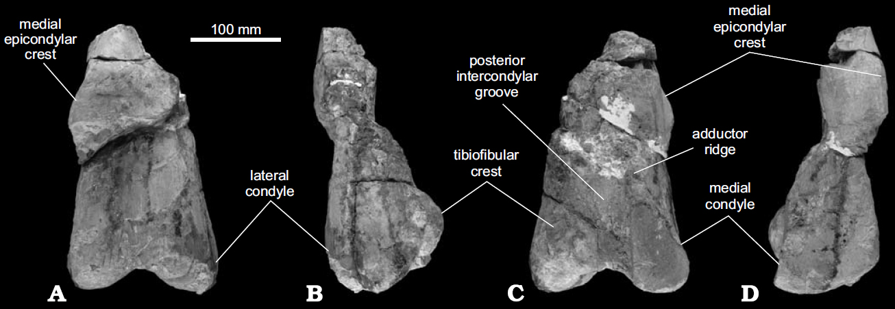 Sauropodomorph dinosaur Glacialisaurus hammeri gen. et sp. nov. from the Early Jurassic Hanson Formation at Mt. Kirkpatrick, Beardmore Gla− cier region, Antarcticac. Distal left femur (FMNH PR1822) in anterior (A), lateral (B), posterior (C), and medial (D) views.